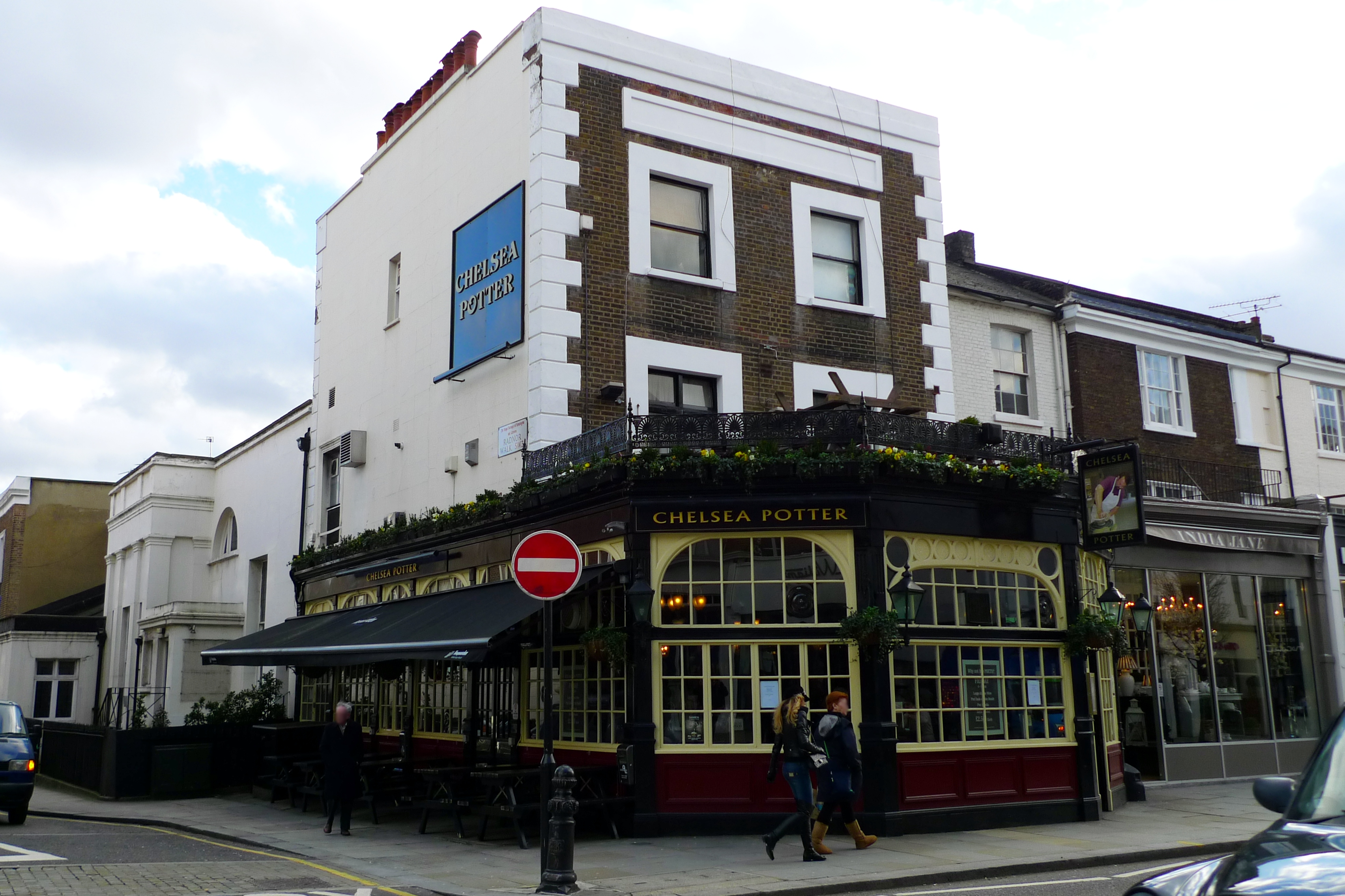 A pub on busy Kings Road. Addresss: 119 Kings Road. Former Name(s): The Commercial Tavern. Owner: Watney Combe Reid (former) Links: Fancyapint Beer in the Evening Qype Dead Pubs (history)